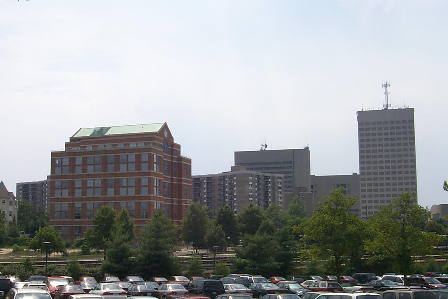 The skyline of downtown Rockville, Maryland in 2001. This photograph was taken by David Podgor and has been released into the public domain by the author.